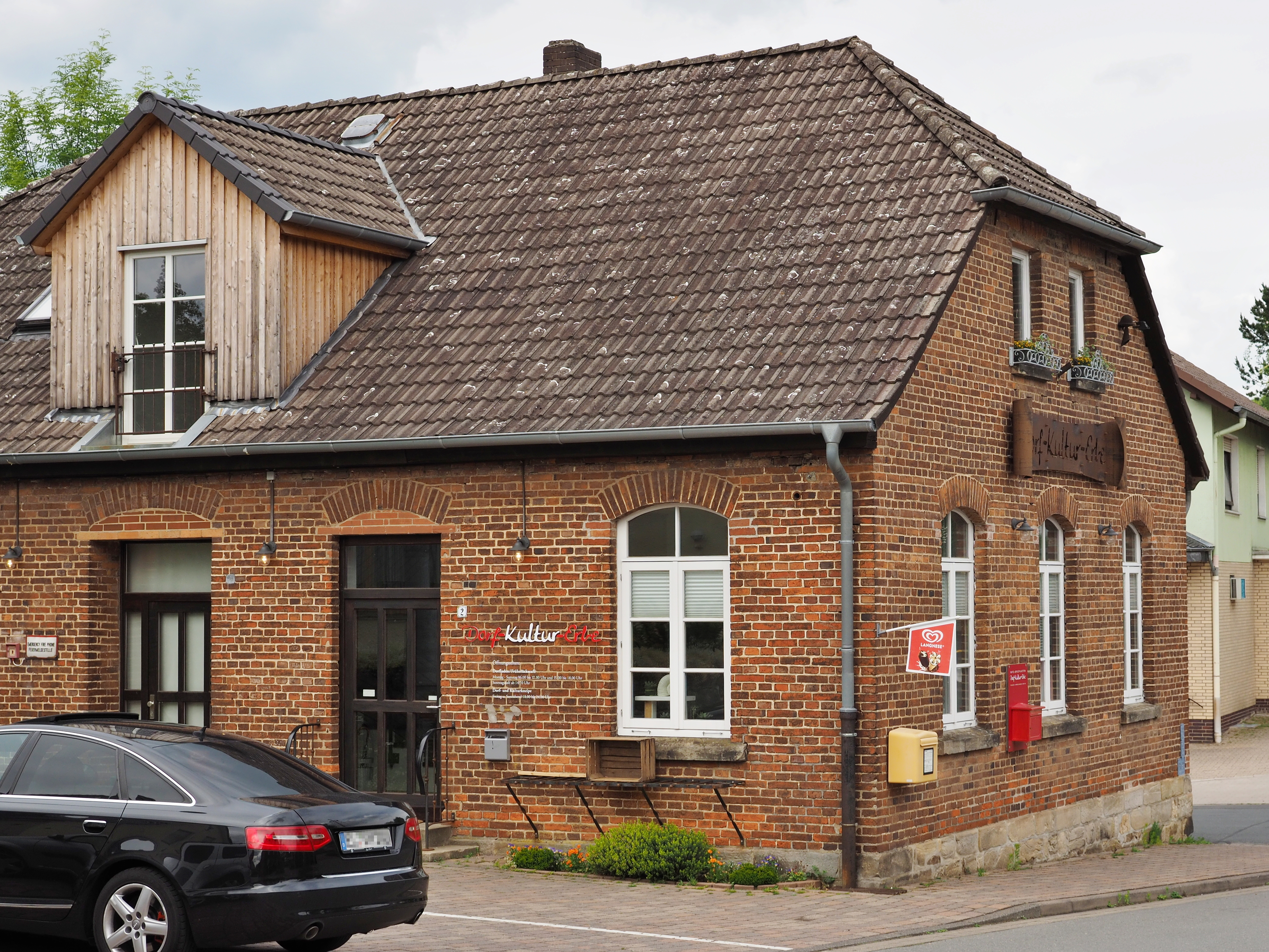 "Village Cultural Heritage" (village store, tea-room and pub) of Altenhagen I